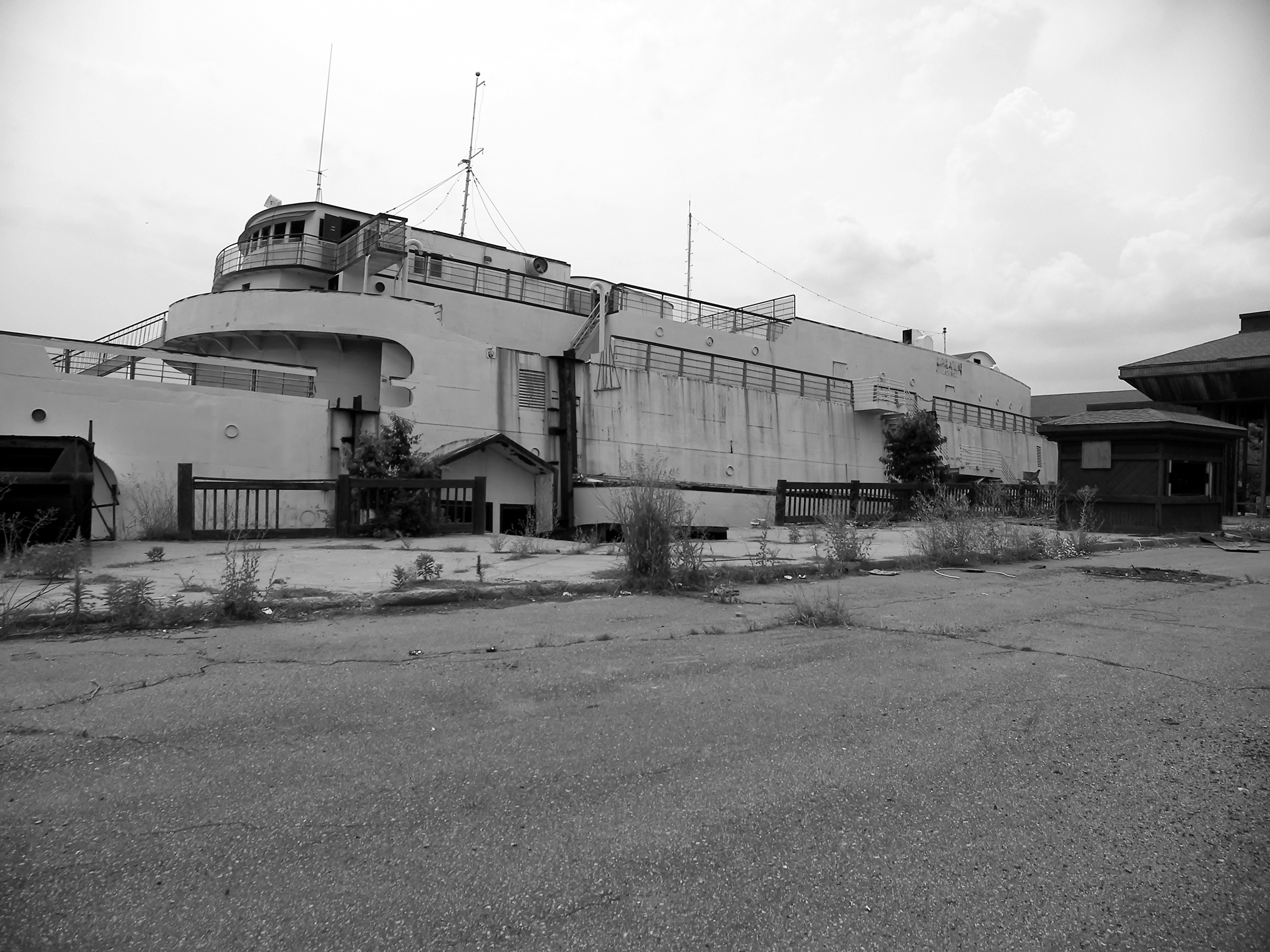 Former Jubilation Casino ship at Mhoon Landing Tunica, MS.